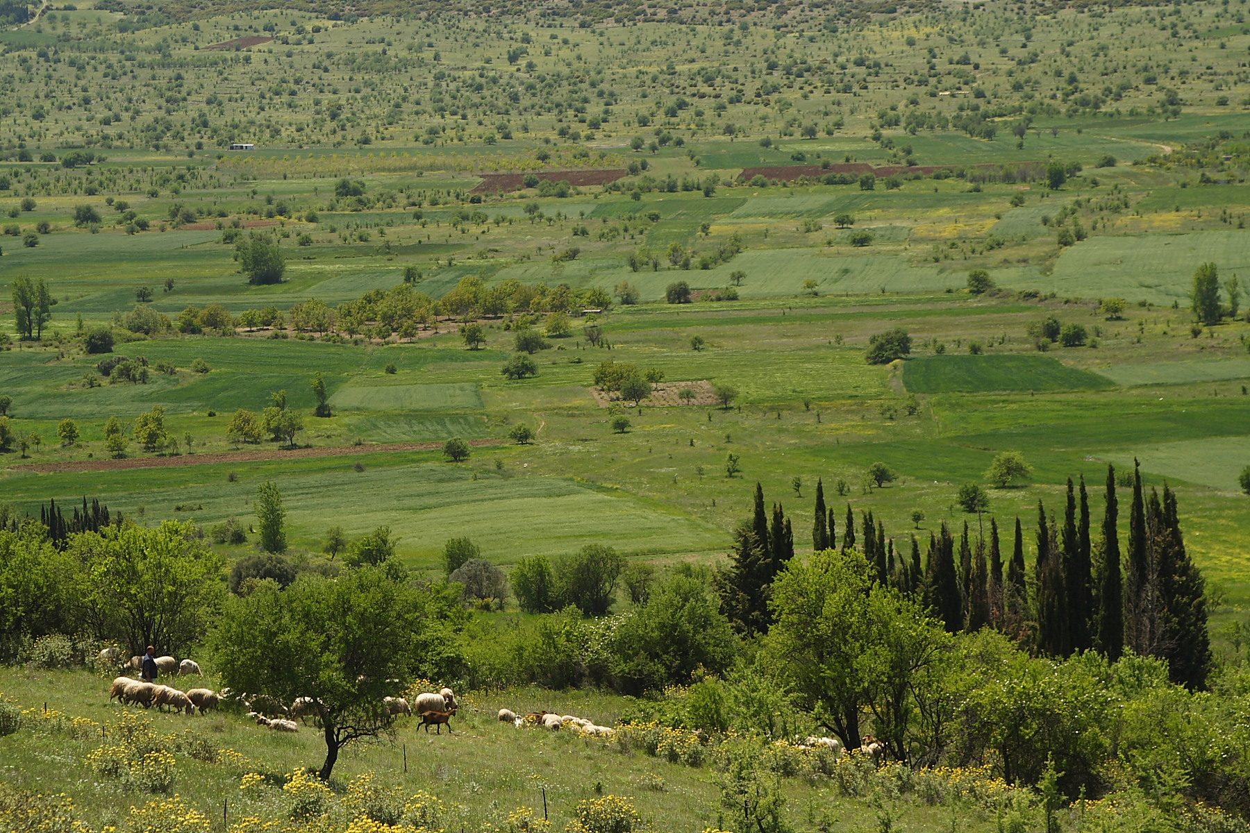 Uneven plateau, with the village Levidi at the slope. The slopes are pasture-like, the wide bottom is cultivated by small fields (a karst basin/depression, 700-670 m). Relatively frequent geological phenomenon in the karst basins of the northeast Peloponnese, Greece. The plateau has no natural surface water outlet. When precipitation of winters is exceptionally rich, some agricultural fields may be wet or even flooded.